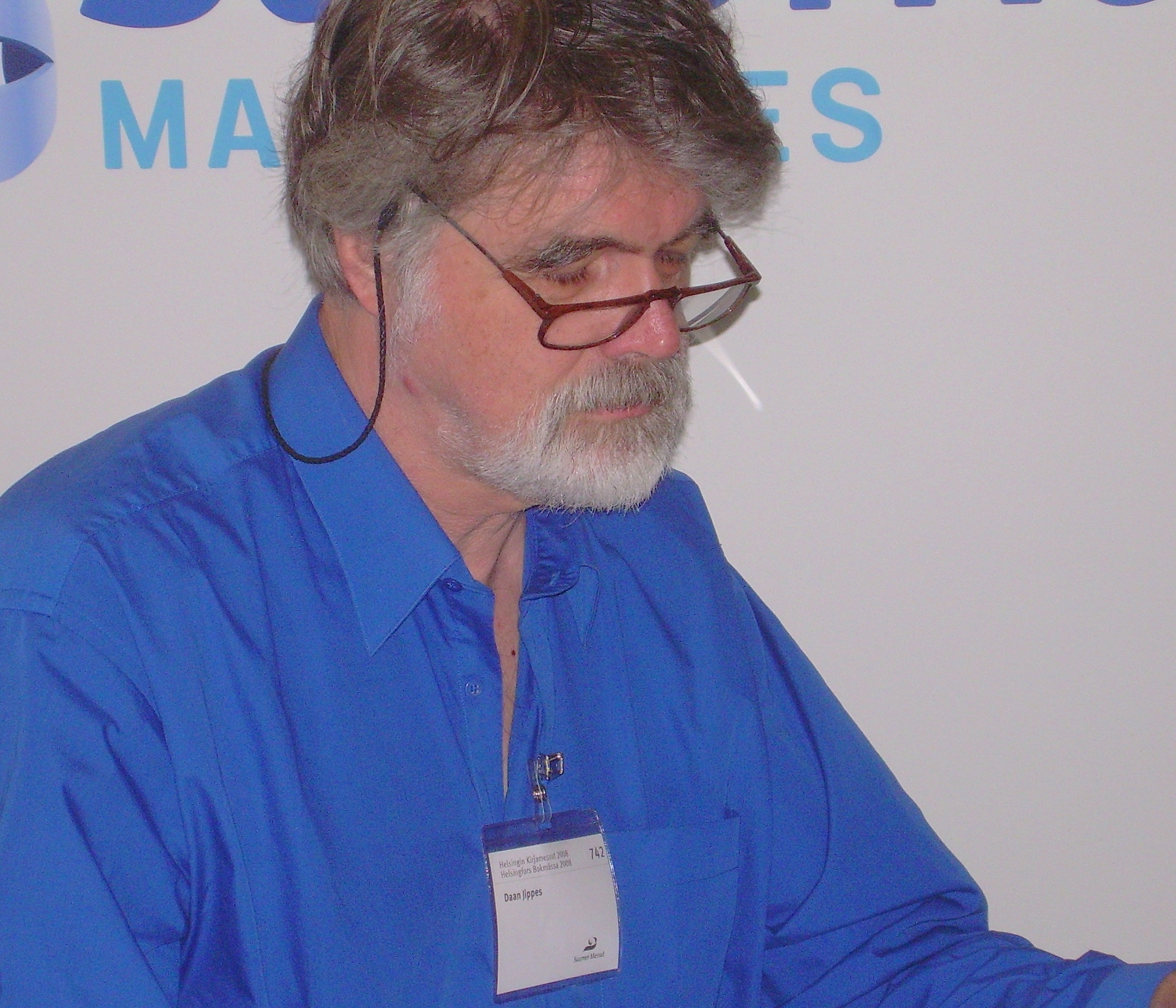 Dutch cartoonist Daan Jippes at the Helsinki Book Fair 2008.